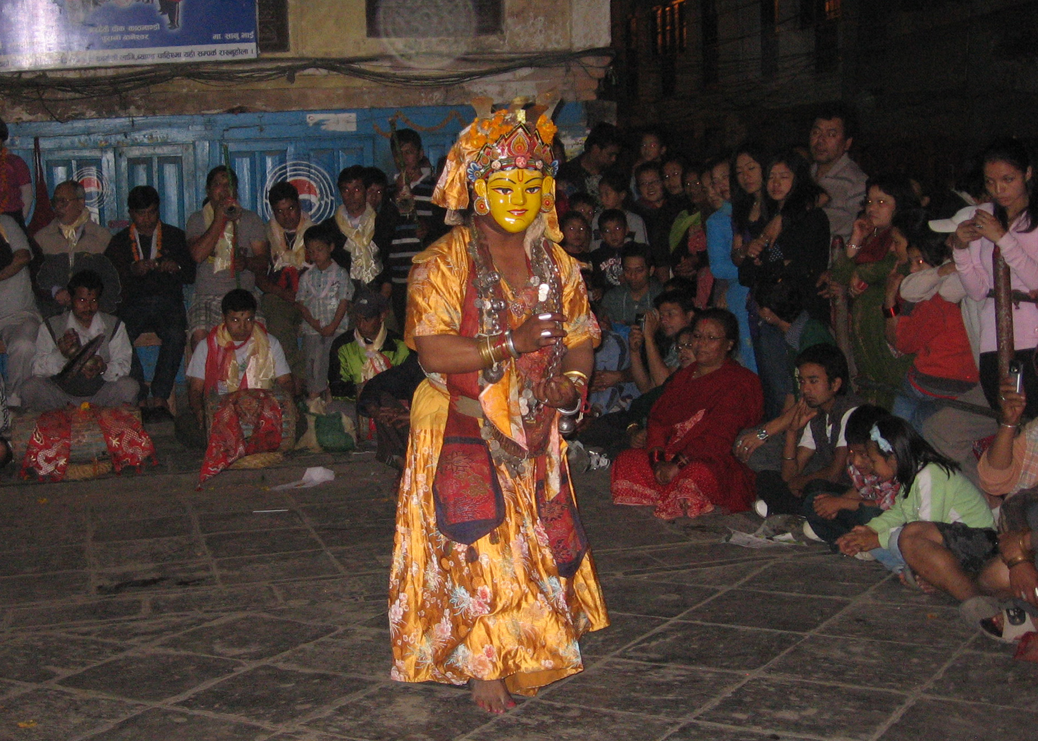 Sacred masked dance drama known as Nyatamaru Ajima Pyakhan performed by the Newars of Nyata, Kathmandu.